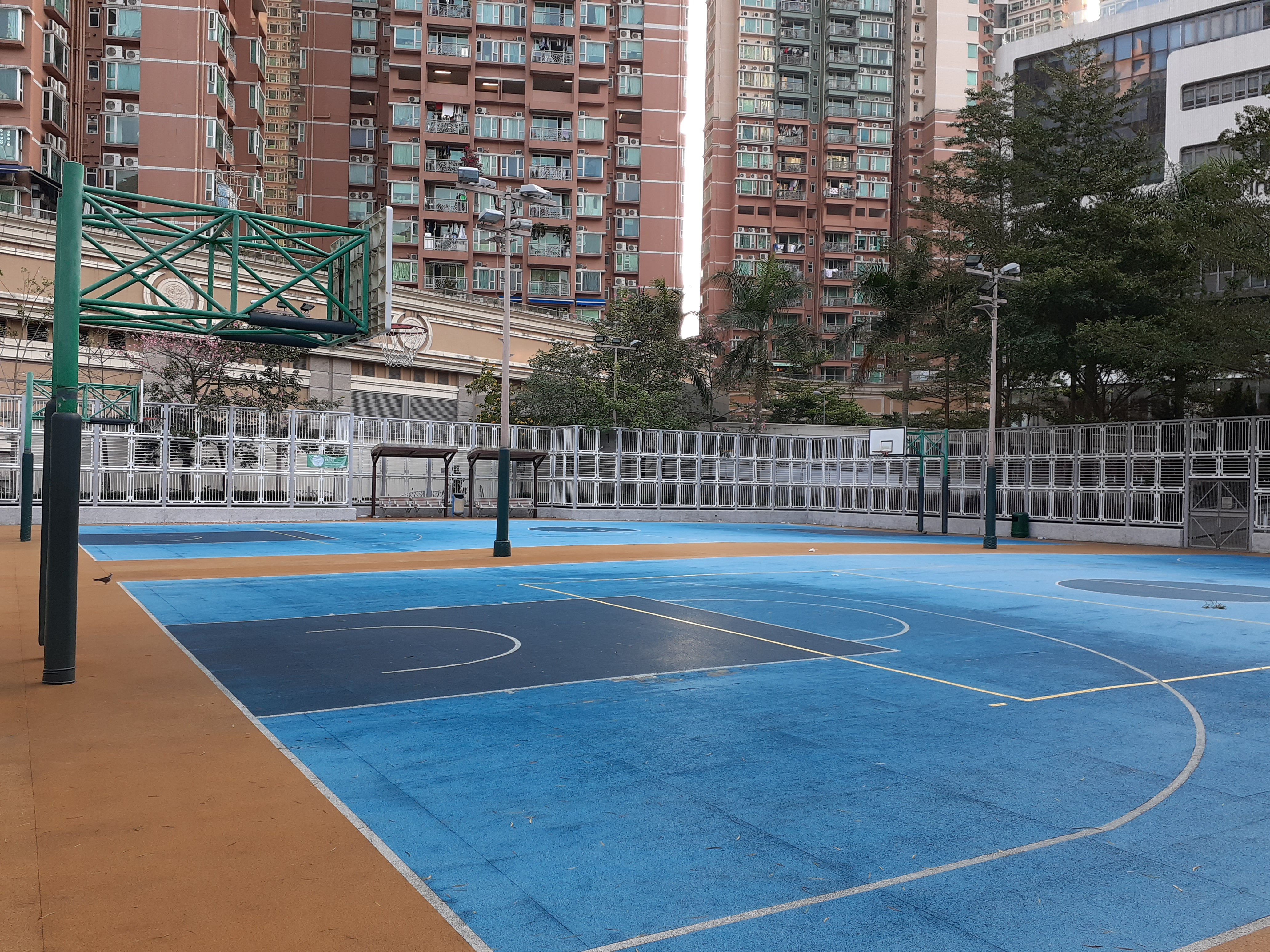 HK TKL 調景嶺 Tiu Keng Leng 彩明街 Choi Ming Street in November 2019